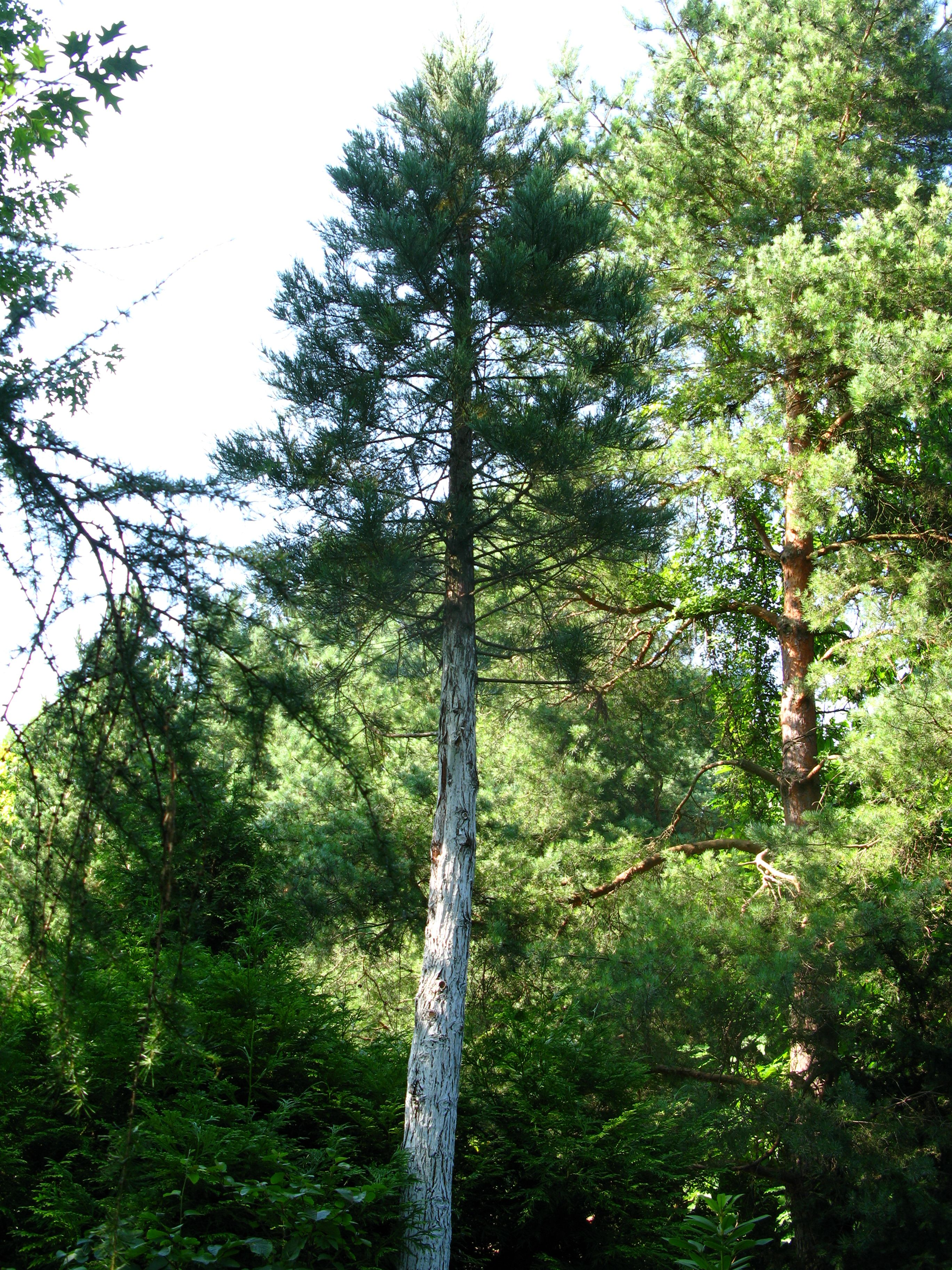 20 years old Sequoiadendron giganteum in Arboretum in PAN Botanical Garden in Warsaw